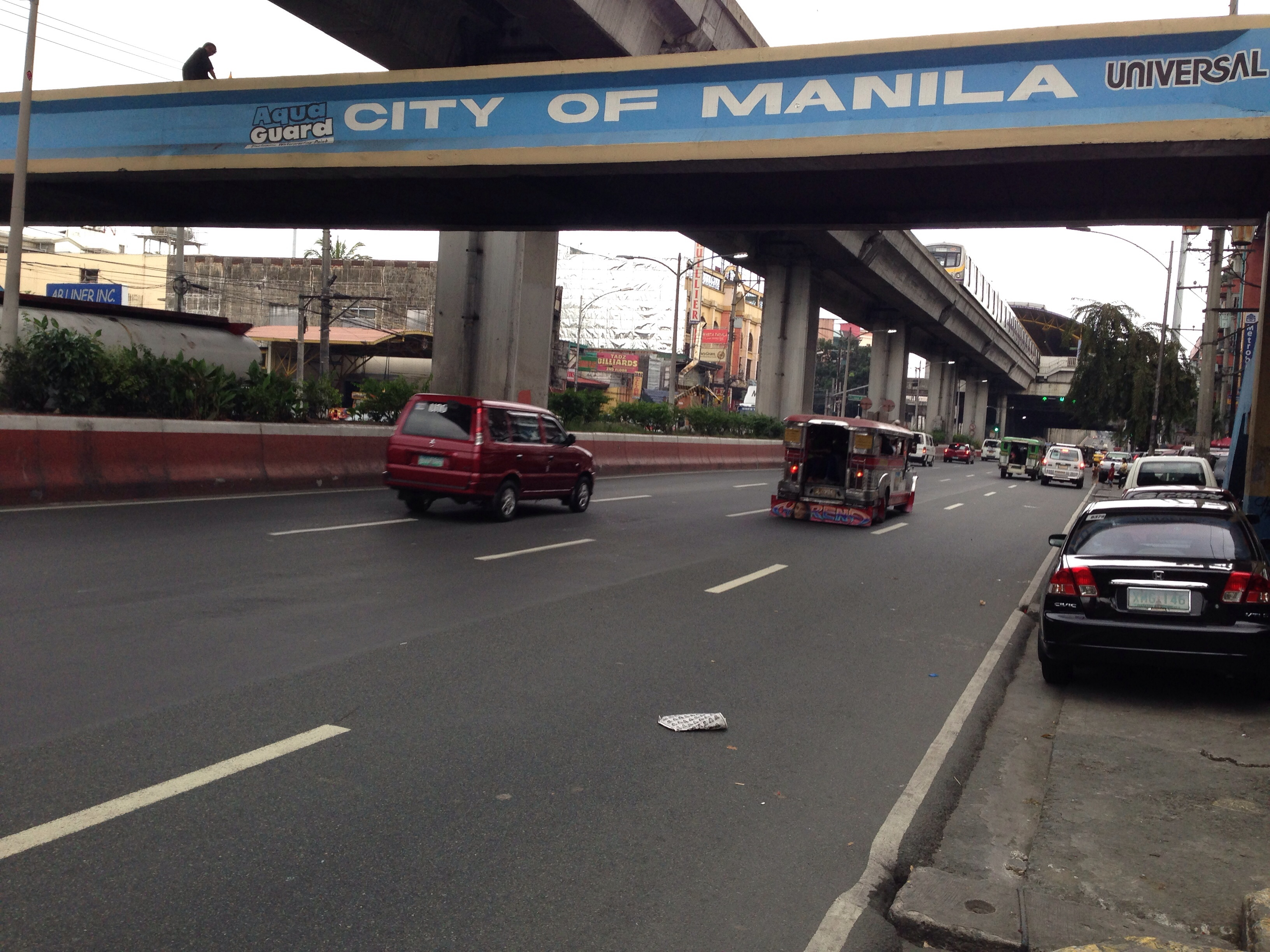 Magsaysay Boulevard looking east towards Pureza LRT Station, Santa Mesa, City of Manila.